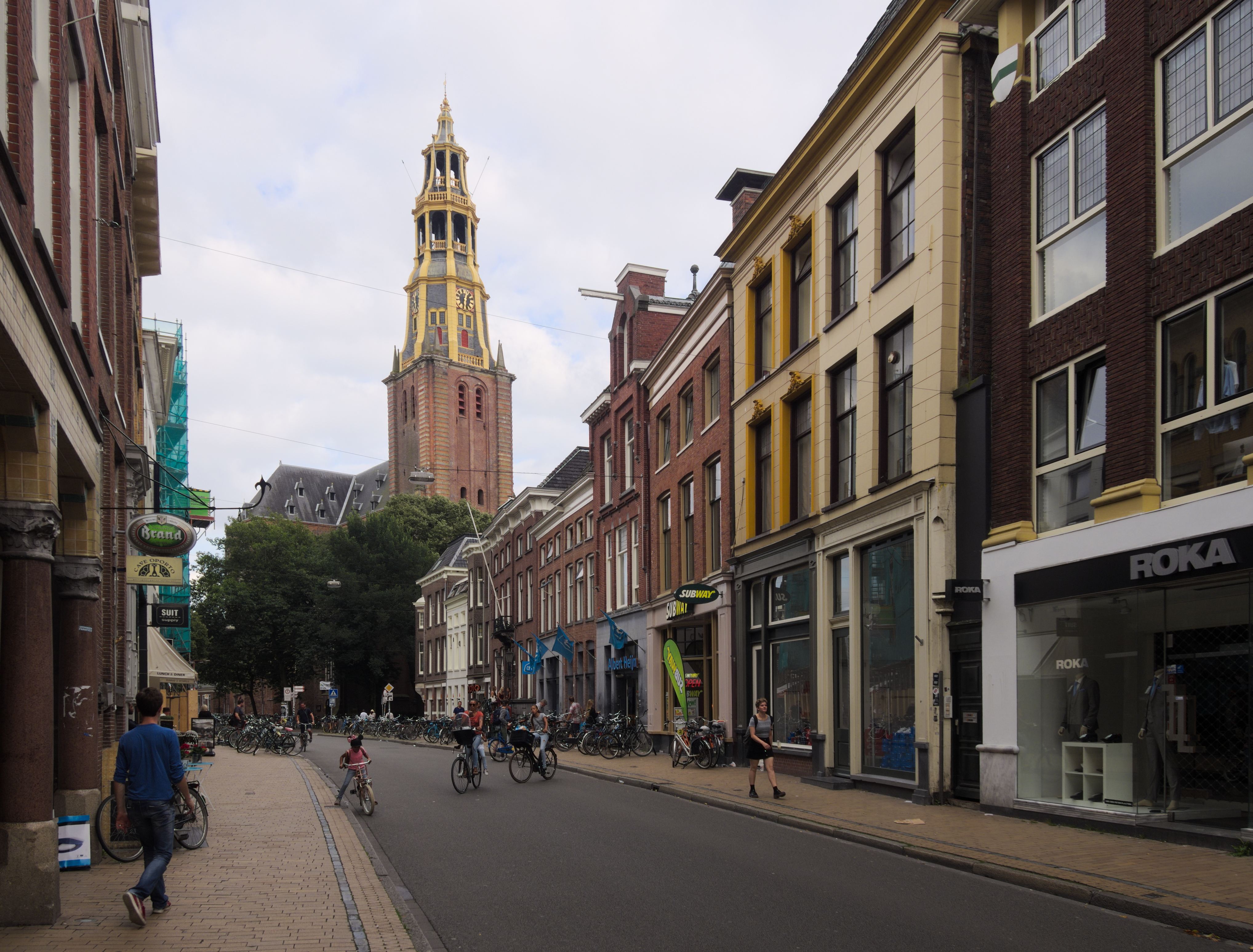 View of Brugstraat street in Groningen, with Aa Kerk.